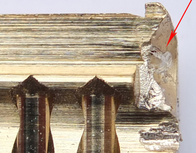 Lock that as been tampered with in order to make insurance believe that a burglar opened it.